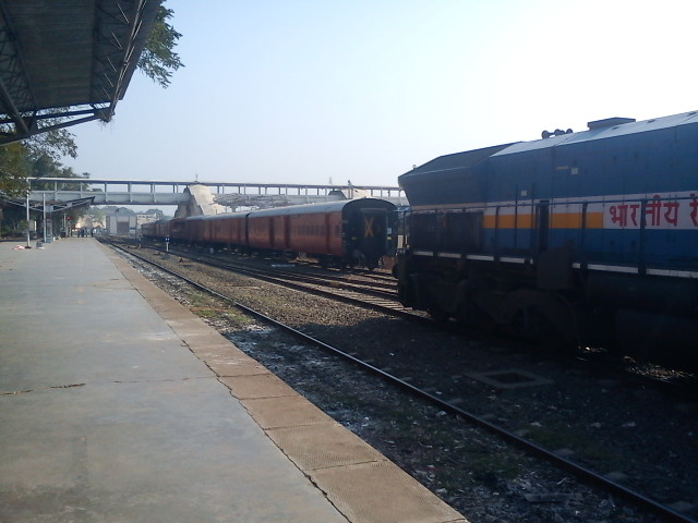 MADURAI JUNCTION 6TH PLATFORM